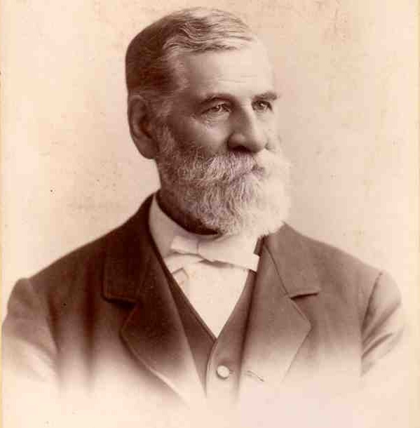 Photo portrait of John D. T. McAllister, taken about 1870 at Salt Lake City Utah. Original in possession of Elaine (McAllister) Moody of Provo, Utah.